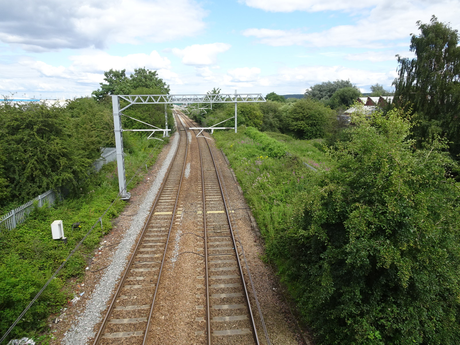 Rotherham Road railway station (site), YorkshireOpened in 1871 as "Park Gate" by the Manchester Sheffield & Lincolnshire Railway, which later changed its name to the Great Central Railway, on the line from Rotherham Central to Doncaster. This station's name was changed to "Rotherham Road" in 1895. It closed to passengers in 1953. View north east towards Parkgate & Aldwarke and Doncaster. The north-east end of the 2 parallel platforms would have been immediately below the camera position but the modern Rotherham Road bridge has been built right over the top of where the station building would have been. The line was electrified in 2018 for use by the South Yorkshire Supertram which now shares the line.